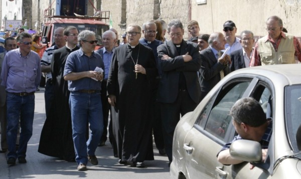 Bishop Nogaro during a demostration